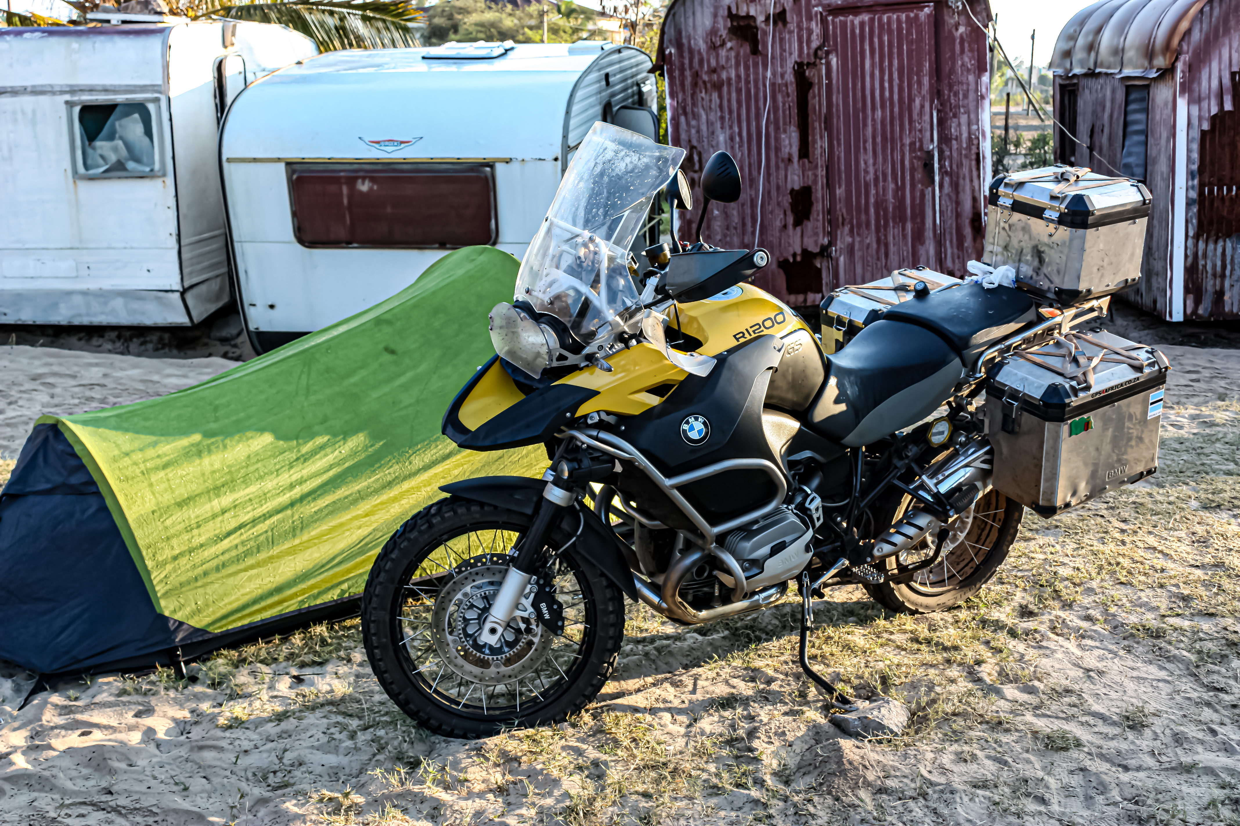 This is an image with the theme "Africa on the Move or Transport" from: Mozambique